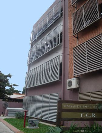 Front of CGR